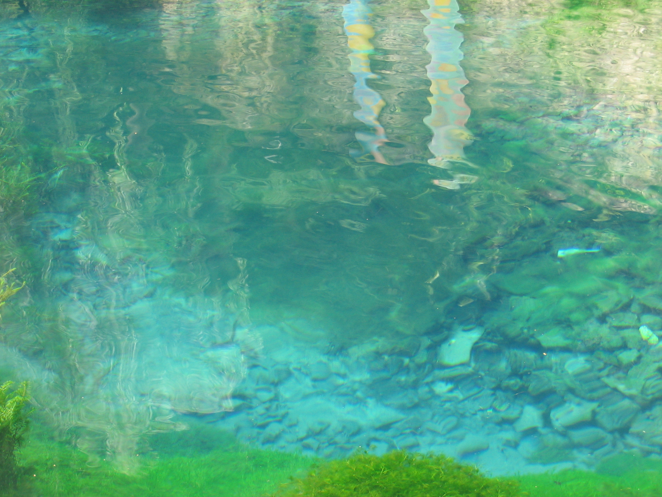 Karst spring of river Urspring in cloister Urspring, Schelklingen / Germany / EU.